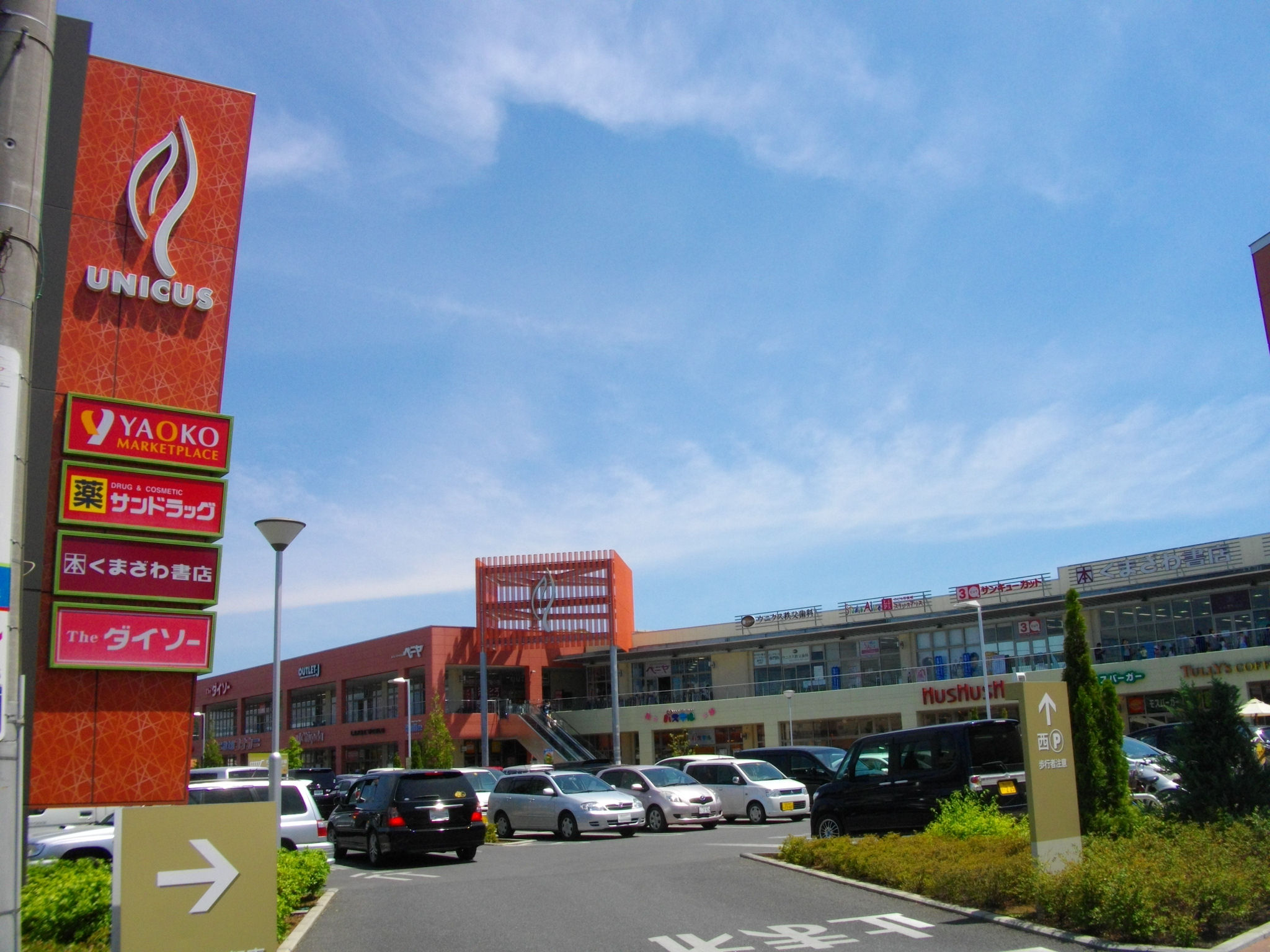 UNICUS Chichibu